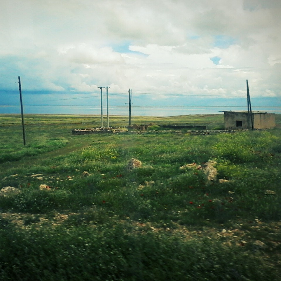 500px provided description: Aleppo, Syria [#field ,#sky ,#landscape ,#nature ,#grass ,#cloud ,#weather ,#farm ,#energy ,#no person ,#Syria ,#Aleppo]